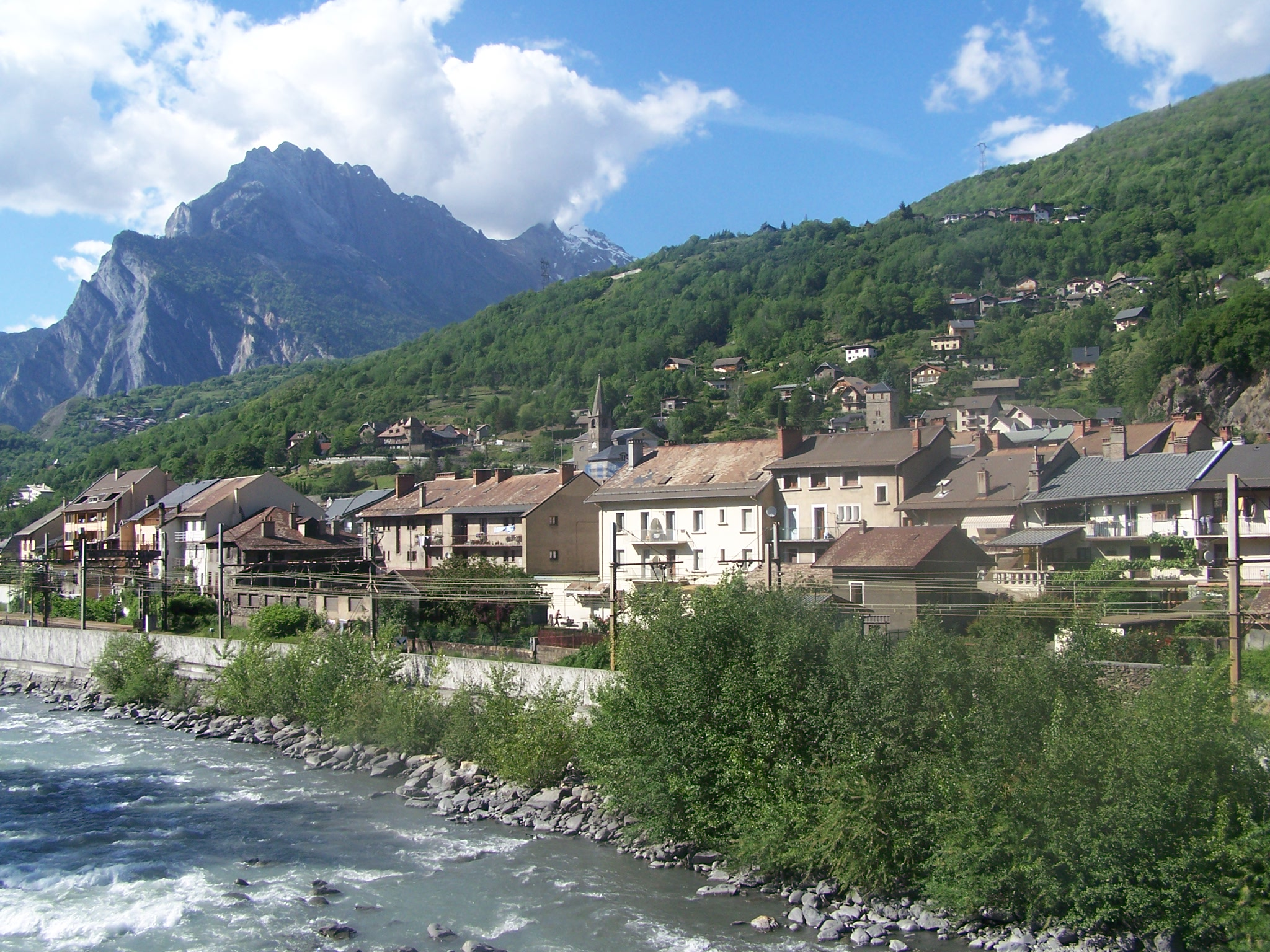 French commune of Saint-Michel-de-Maurienne, in the department of Savoie (French Alps). Left in the background the Croix des Têtes (2 492 metres).